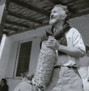 Philip Sherrard (23 September 1922 – 30 May 1995) was a British author, translator, and philosopher.